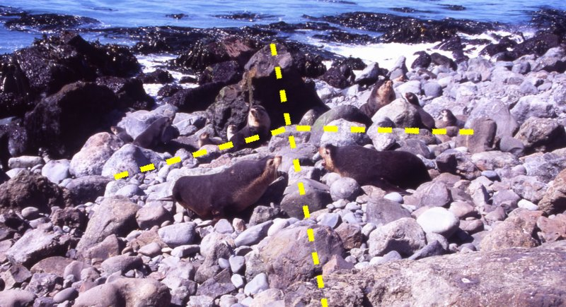 This picture was taken in Possession Island (Crozet Archipelago) at the site named "the elephant seal pool". This picture was taken in december 2002 by Nicolas Servera. This picture is the picture Arctocephalus tropicalis Crozet fight 01.JPG who has been changed by the drawing of dotted lines. The border shared on the territories of the four males from the picture are the yellow dotted lines. You can see that theses borders are matching with big rocks. So, it seems that theses big rocks are landmarks who make easier the visualisation of the borders.